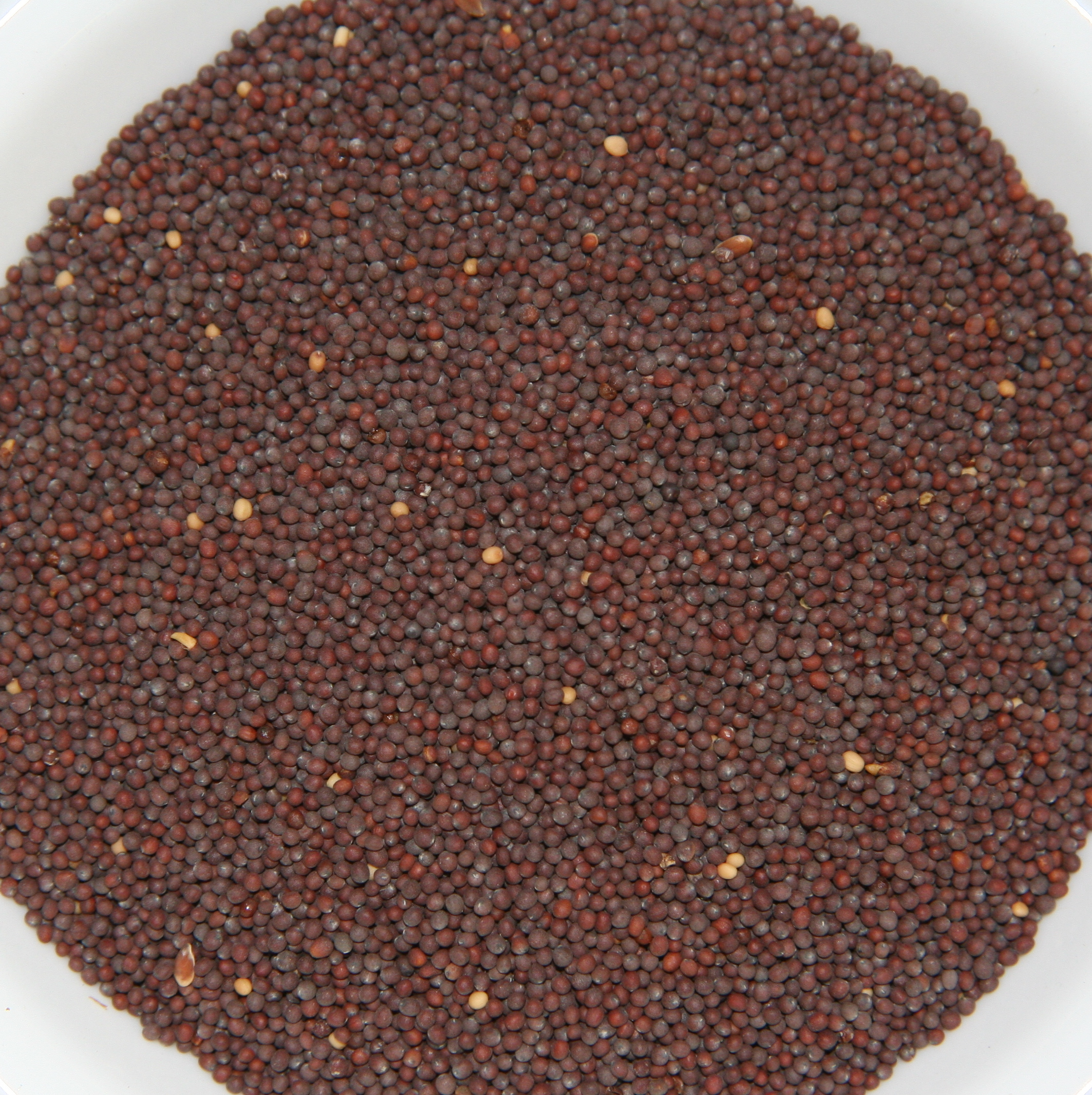 Bowl of Canadian brown mustard seed for use in cooking